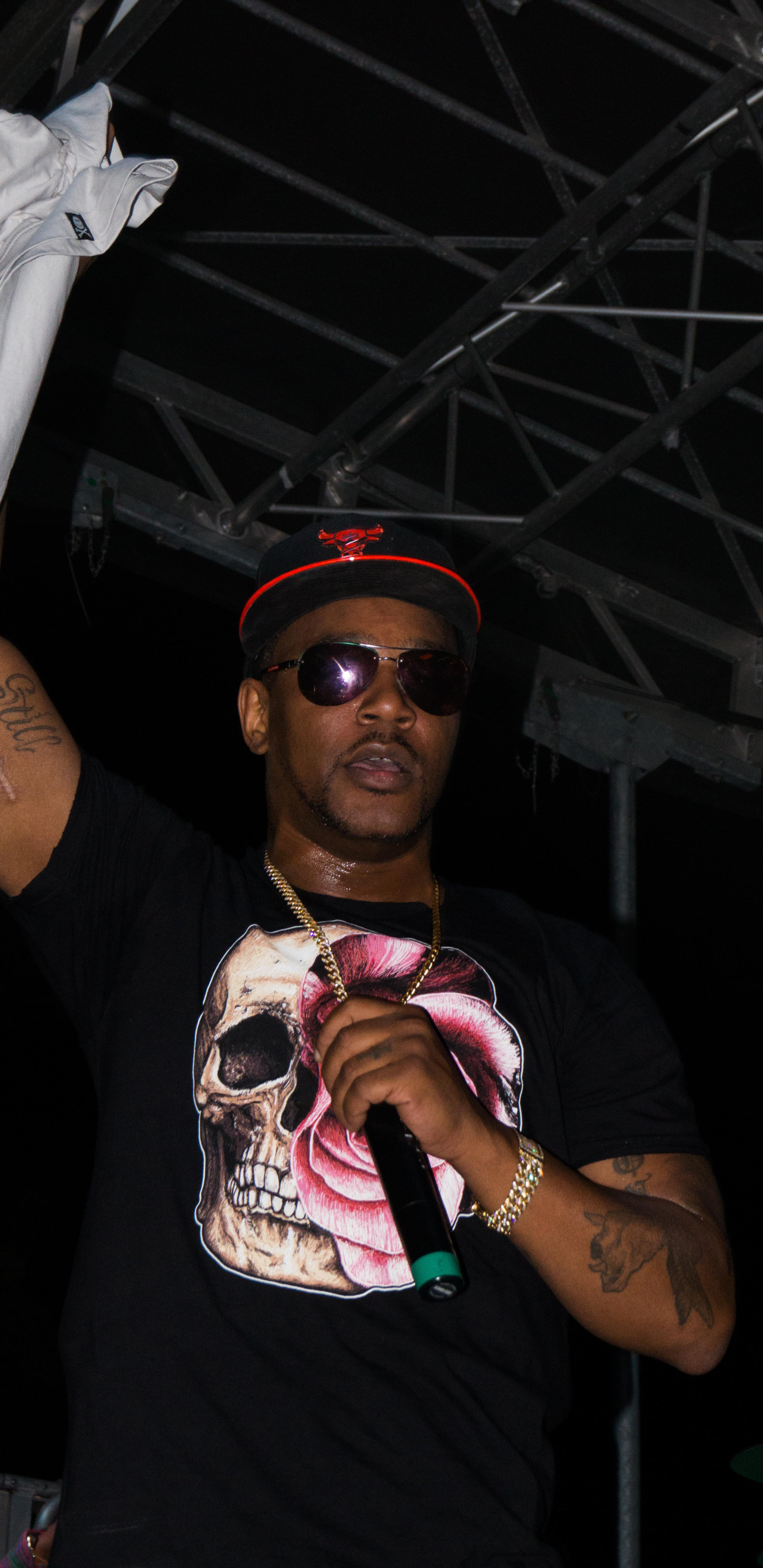 Cam'ron at the Broccoli City DC Festival.